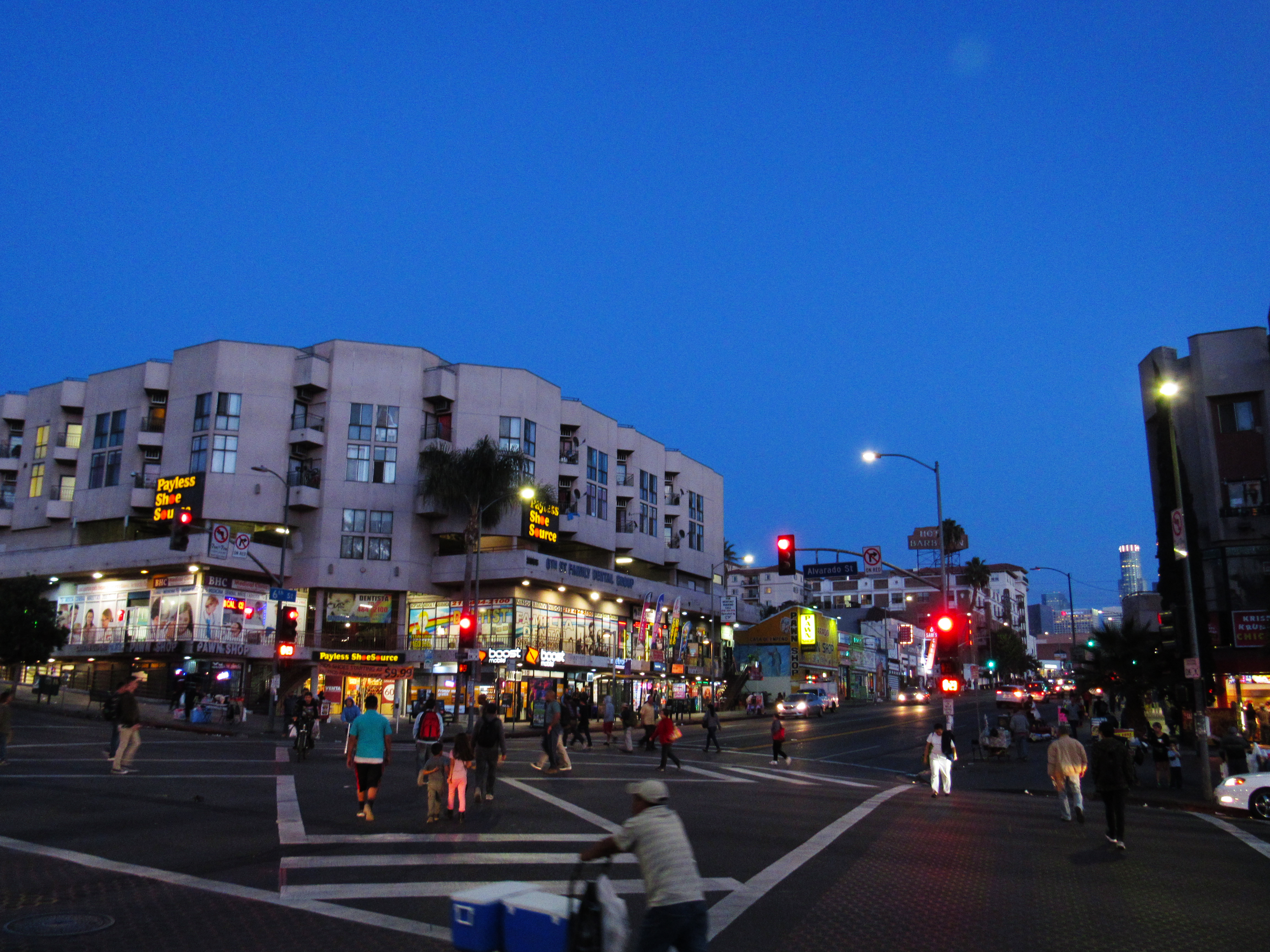 Intersection of 6th and Alvarado streets in Westlake, Los Angeles, California, looking towards the east